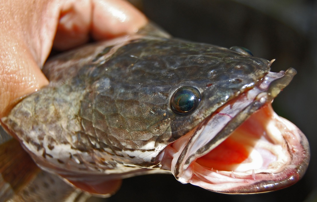 Snakehead murrel, Channa striata; head close-up. From Banyumas, Central Java, Indonesia